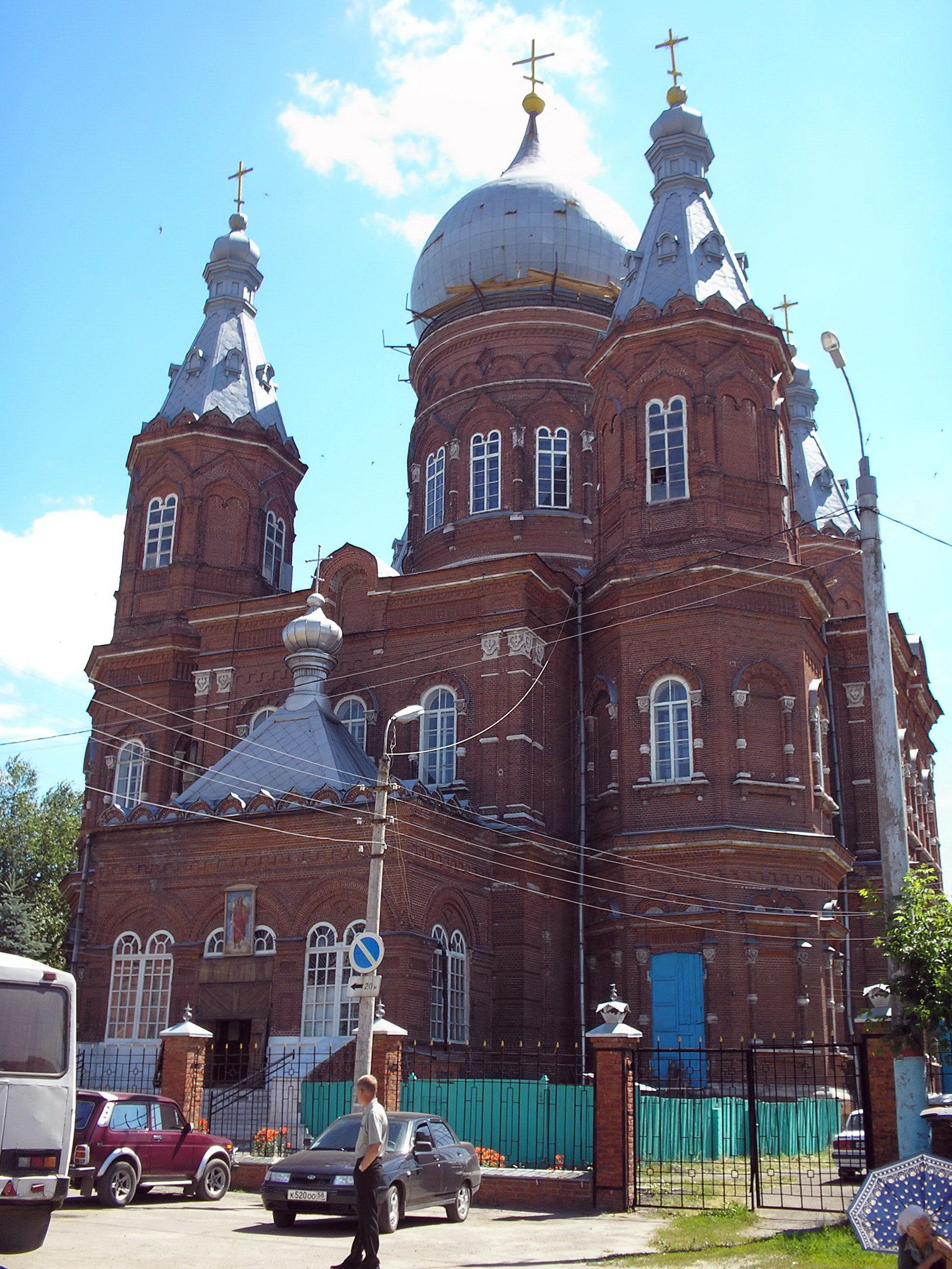 Serdobsk. Michael Arhangela's cathedral